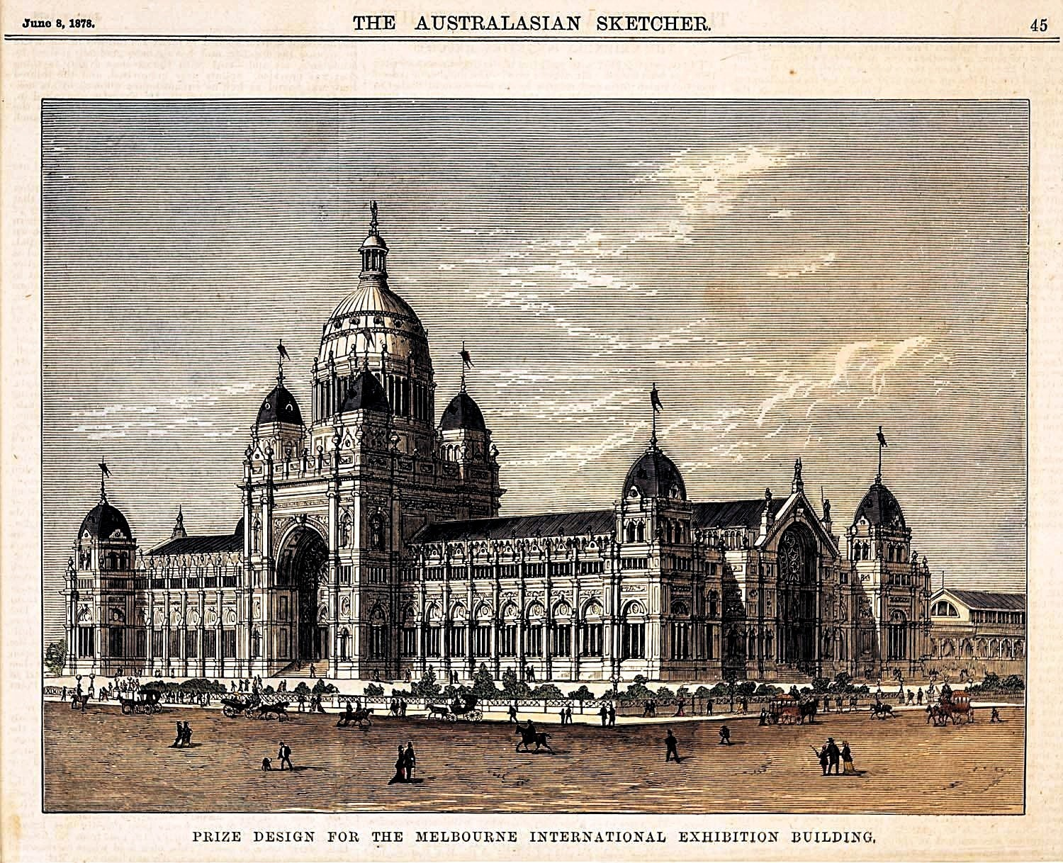 ENGRAVINGS, from 'The Australasian Sketcher', comprisng - 8 June 1878 "Prize Design for the Melbourne International Exhibition Building".